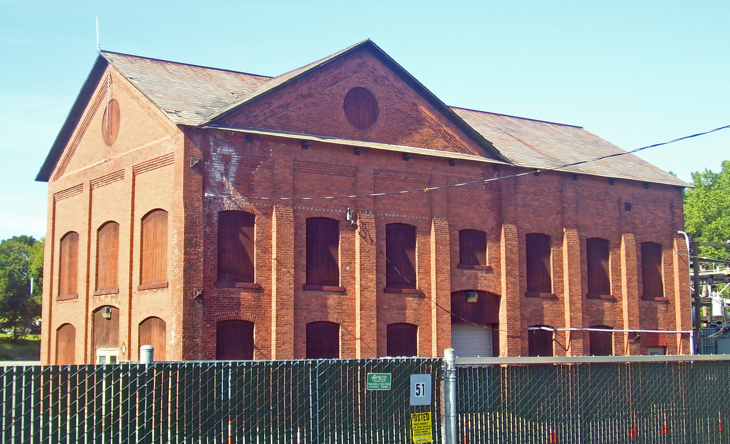 Former Saratoga Gas, Electric Light and Power Company substation building, Saratoga Springs, NY, USA